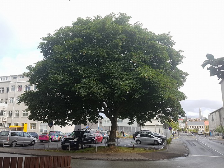 Acer pseudoplatanus in Reykjavík, Iceland.